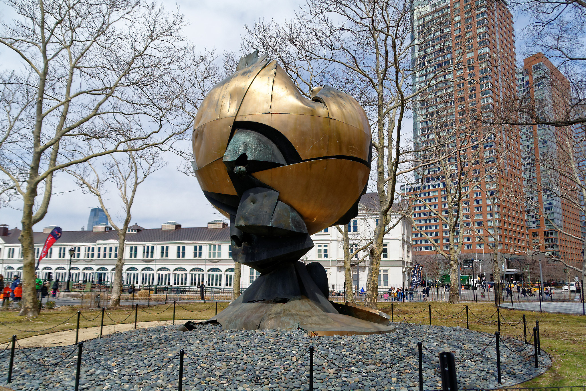 The Sphere by Fritz Koenig, Battery park